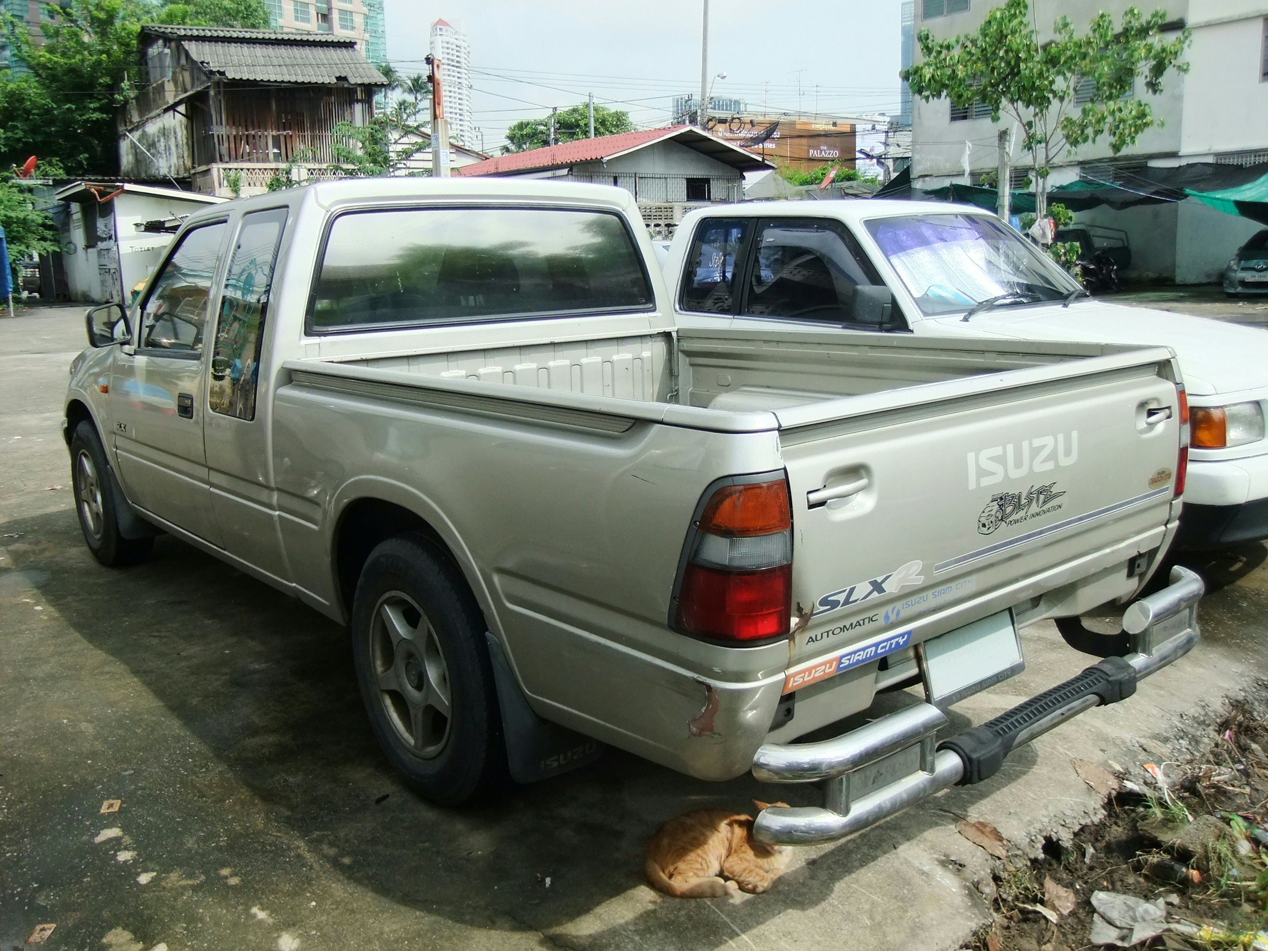 ISUZU, Spacecab SLX-R, Rear